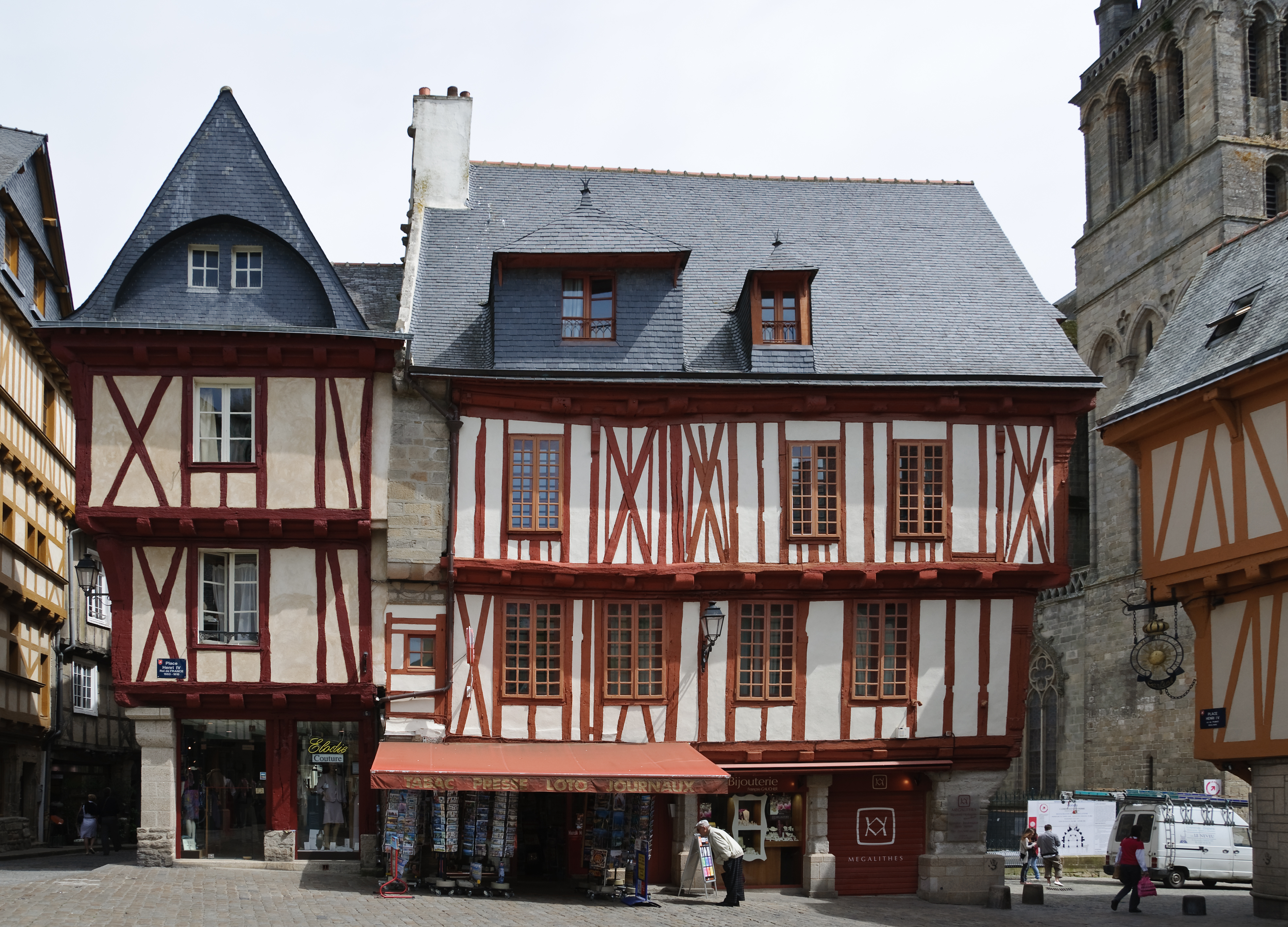 Vannes, Morbihan, France: timber-frame houses (16th-century) located place Henri IV. It is indexed in the Base Mérimée, a database of architectural heritage maintained by the French Ministry of Culture, under the references PA00091789 and PA00091790 .